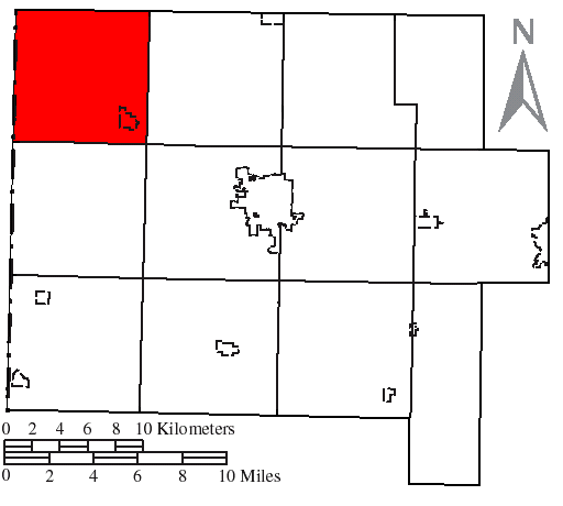 Made by the US Census and modified by myself